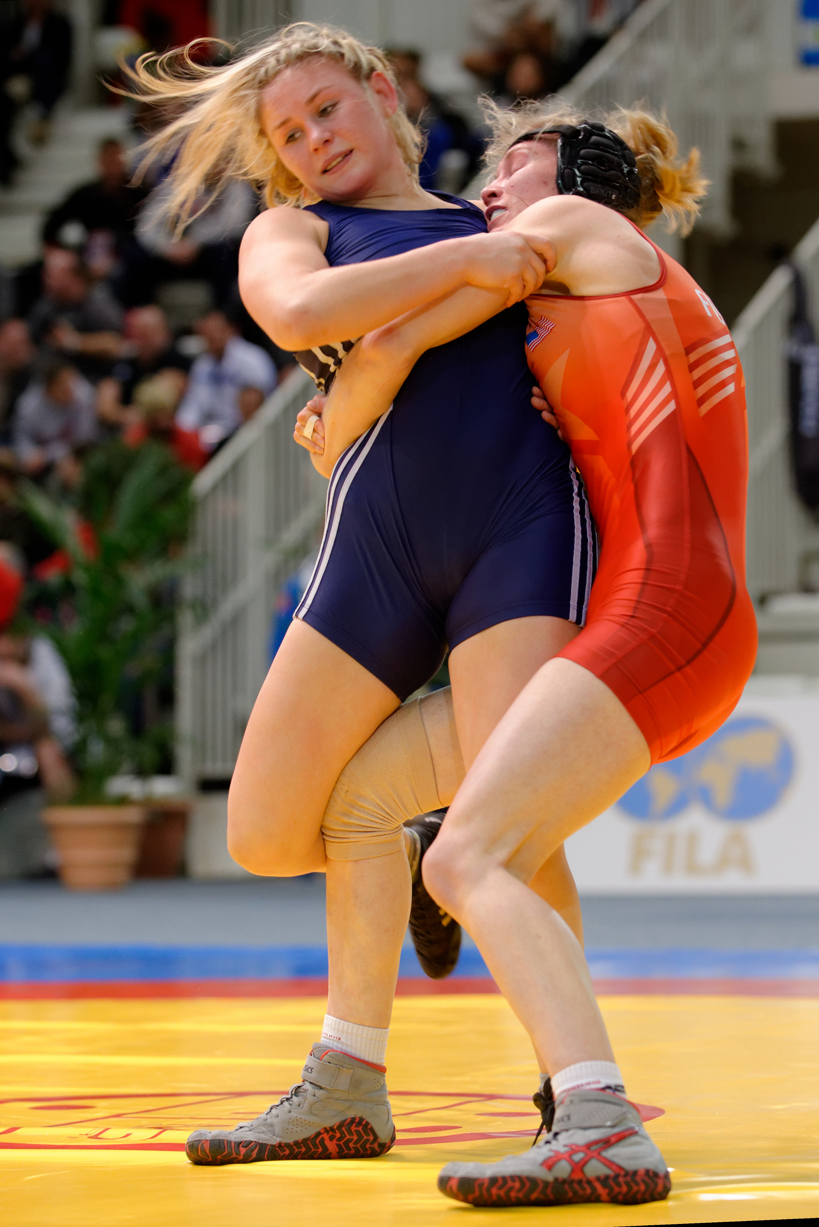 Katherine Fulp-Allen of the United States (red) wrestles Karalina Tjapko of Latvia (blue) during their female wrestling 53 kg quarter-final at the Golden Grand Prix of Paris on 8 February 2014.